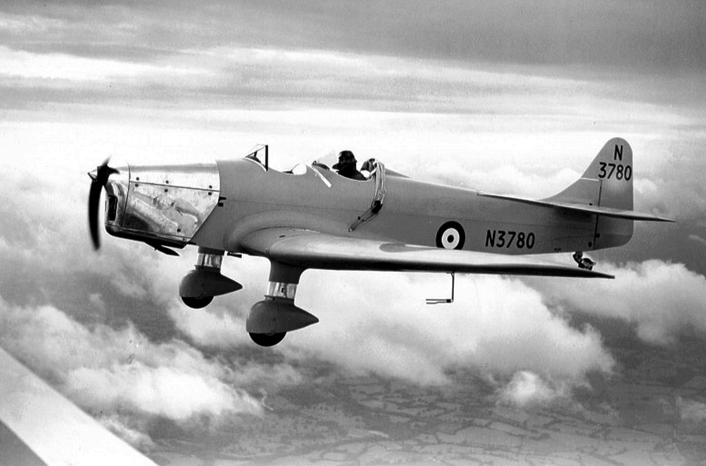 Aircraft of the Royal Air Force 1939-1945- Miles M.14 Magister. Magister, N3780, being flown by Miles Aircraft’s test-pilot, Bill Skinner, from Woodley airfield, Berkshire. The aircraft later served as ‘49’ with No. 15 Elementary Flying Training School at Carlisle.